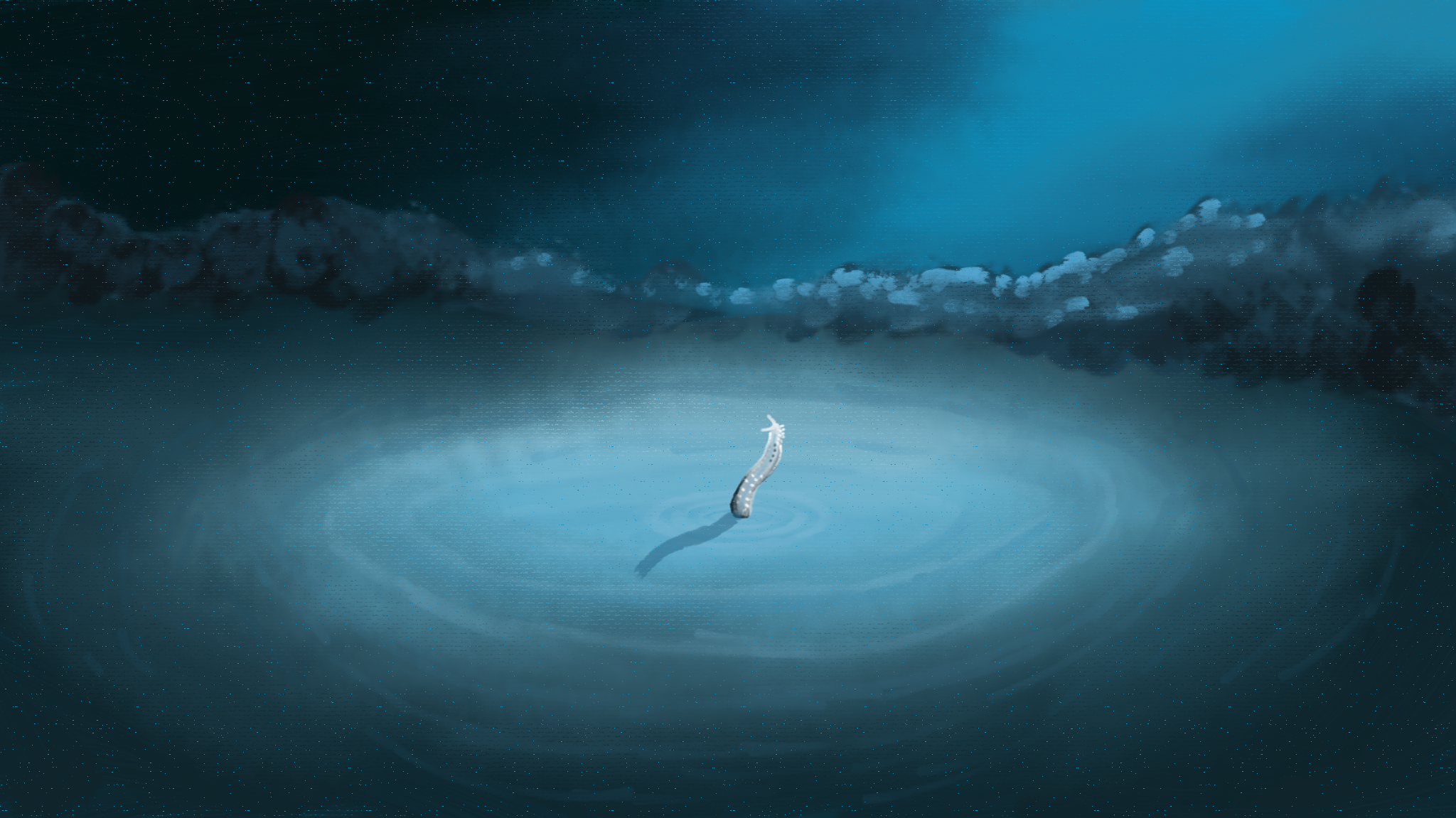 An illustration of Pikaia gracilens trying to escape a Brine Seep, a scene which may have during the Cambrian period at the bottom of the Burgess Shale.